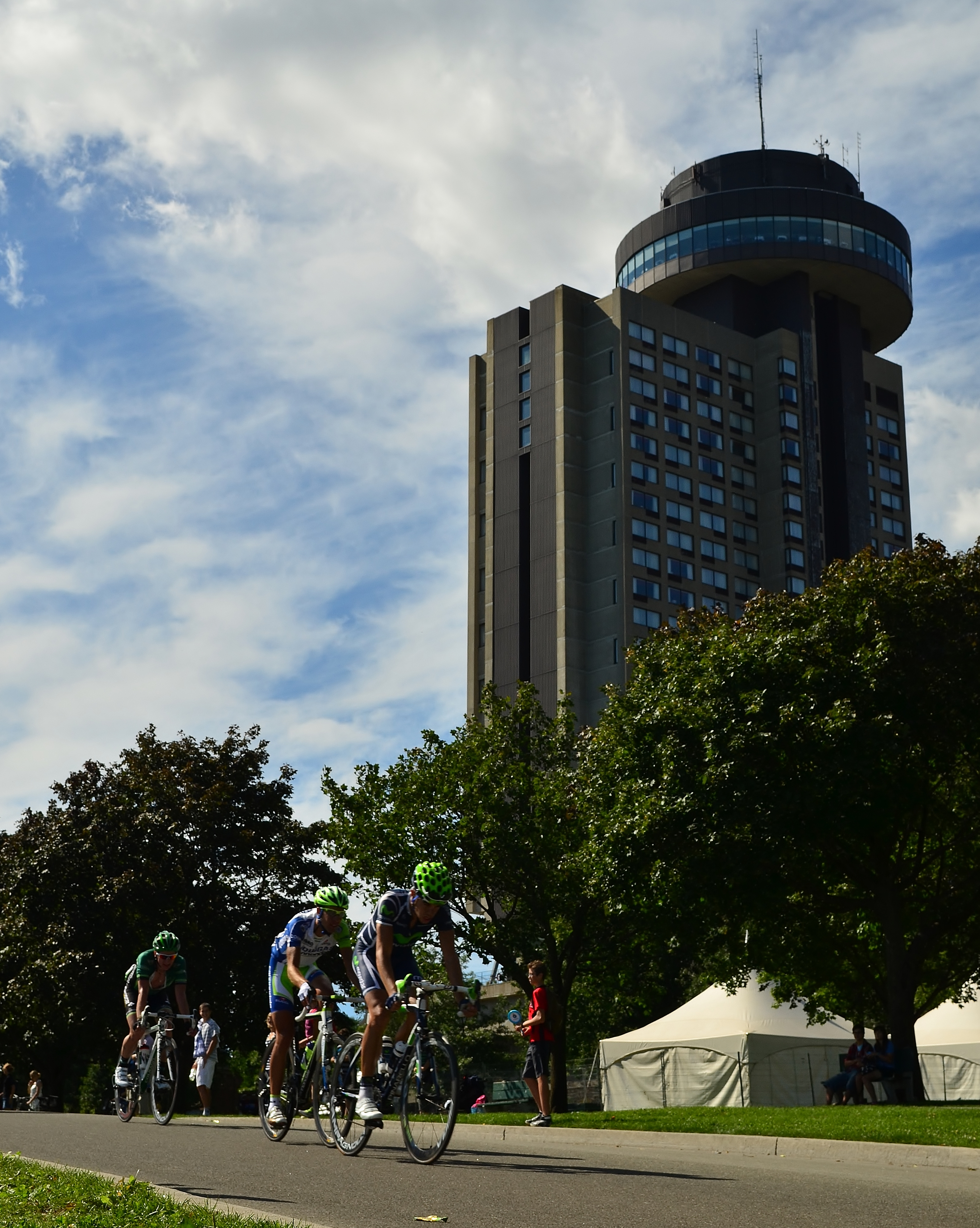 Quebec City's Grand Prix Cycliste 2011 in front of the Hotel Le Concorde. Can be seen from left to right:Tony Hurel (Europcar), Cristiano Salerno (Liquigaz) et Jesus Herrada (Movistar).